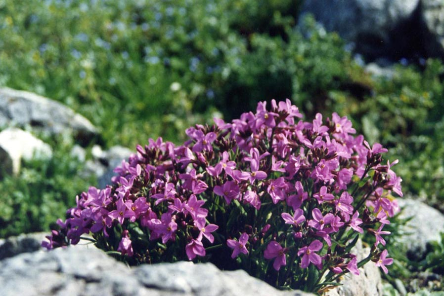 Arabis blepharophylla